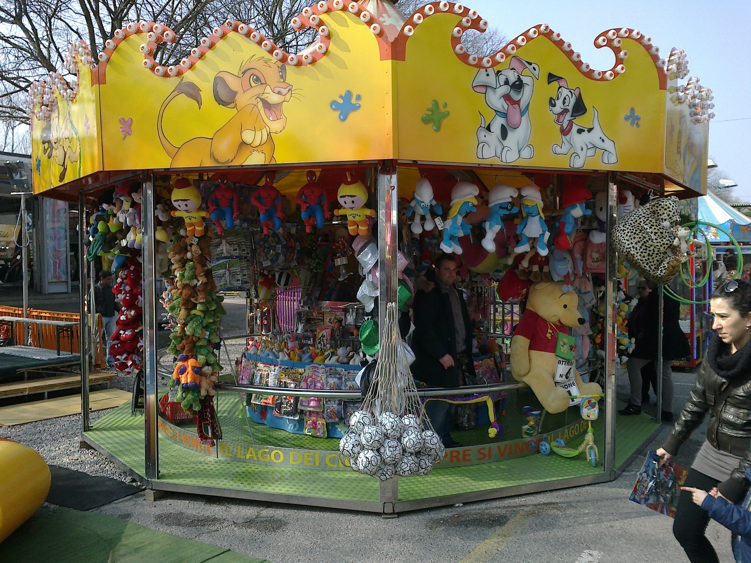 Fish the swan and win a Plush, at Sant'Anselmo 2013 funfair in Mantua, Italy